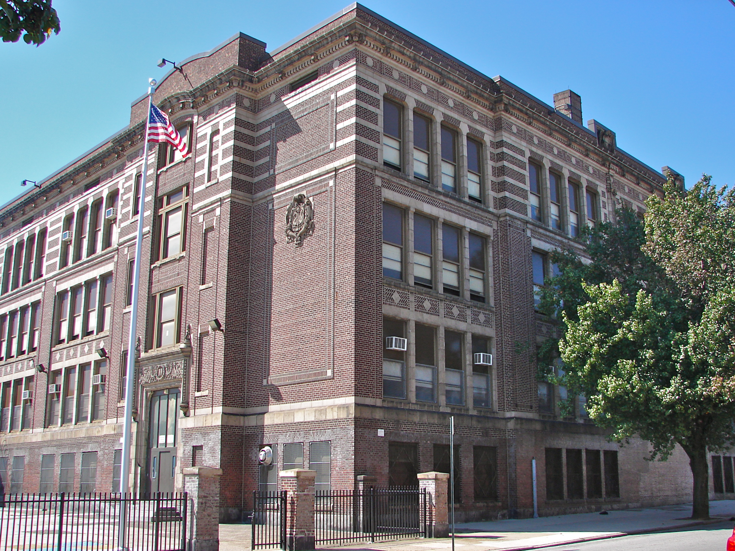 John Greenleaf Whittier School in Philadelphia on the NRHP since November 18, 1988. At 2600 Clearfield St. in the Allegheny West neighborhood of North Philly.